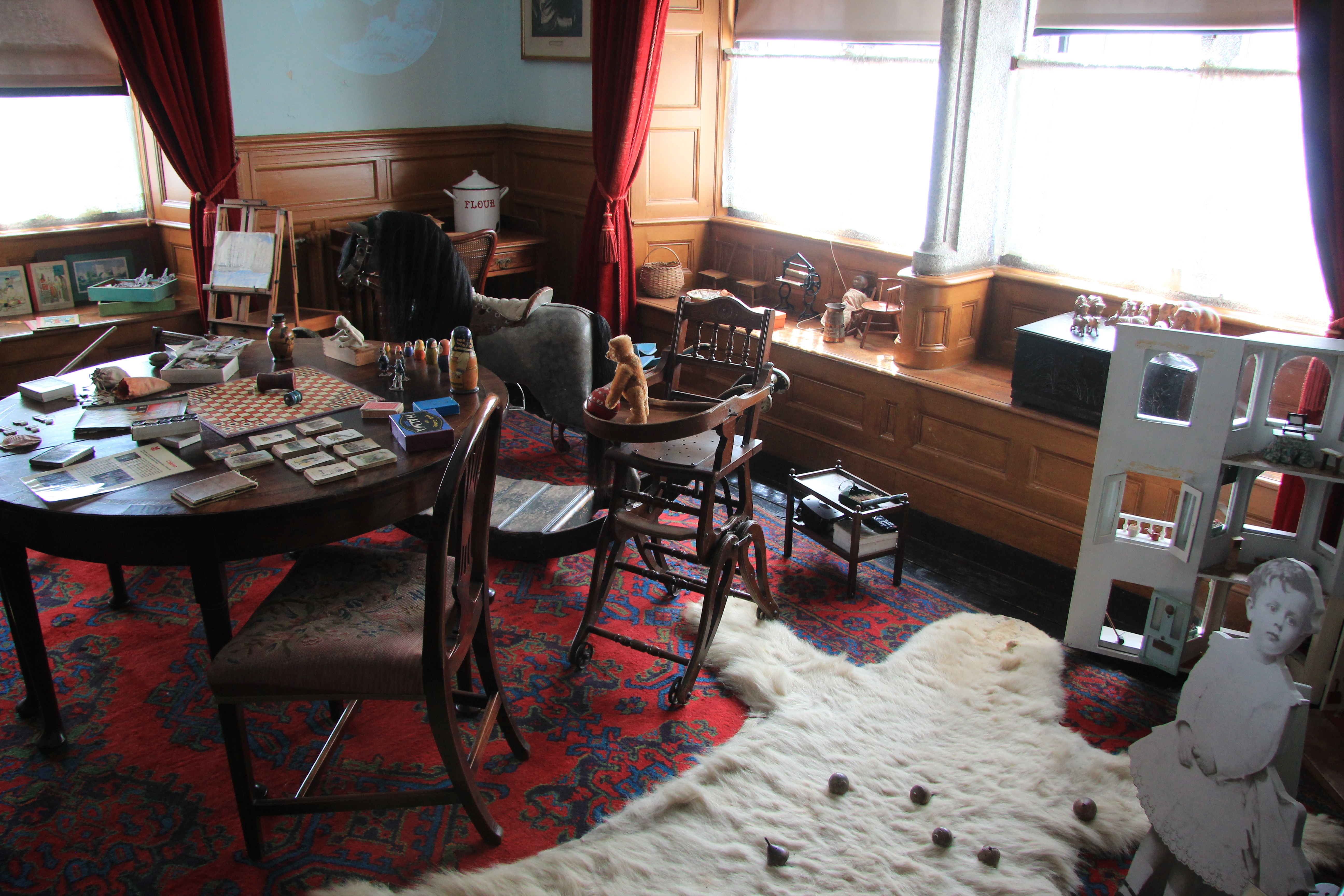 Lanhydrock House in Cornwall